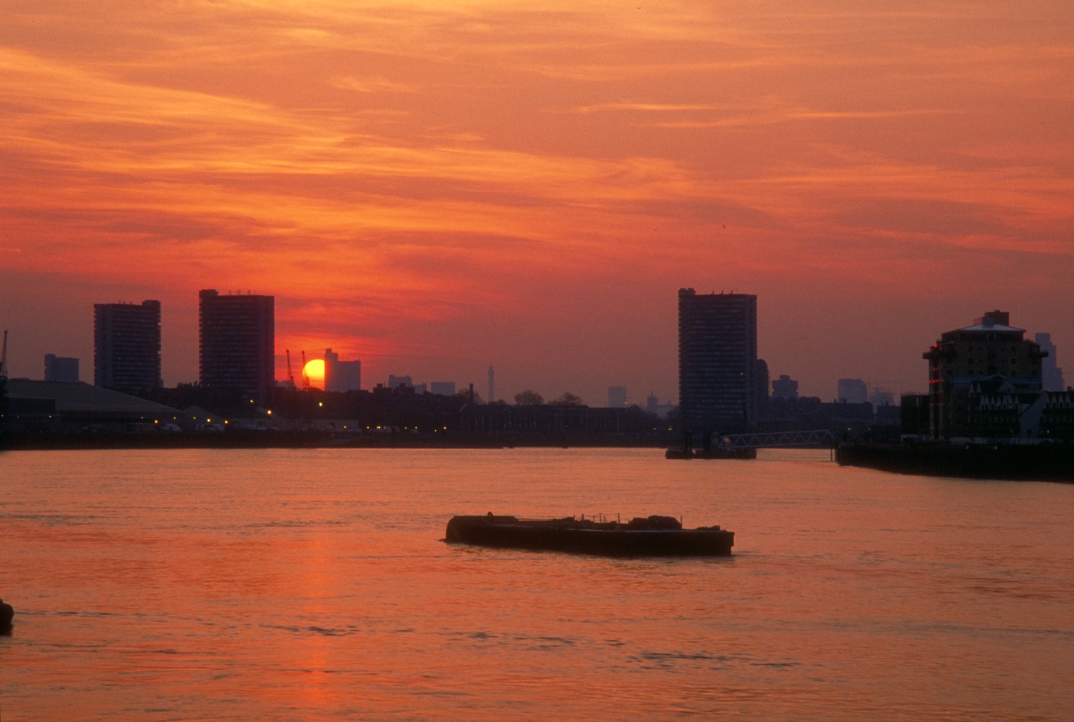 Sunset on the river Thames viewed from Greenwich. Picture shot on Fuji Velvia film using a Minolta SLR by Dlloyd.